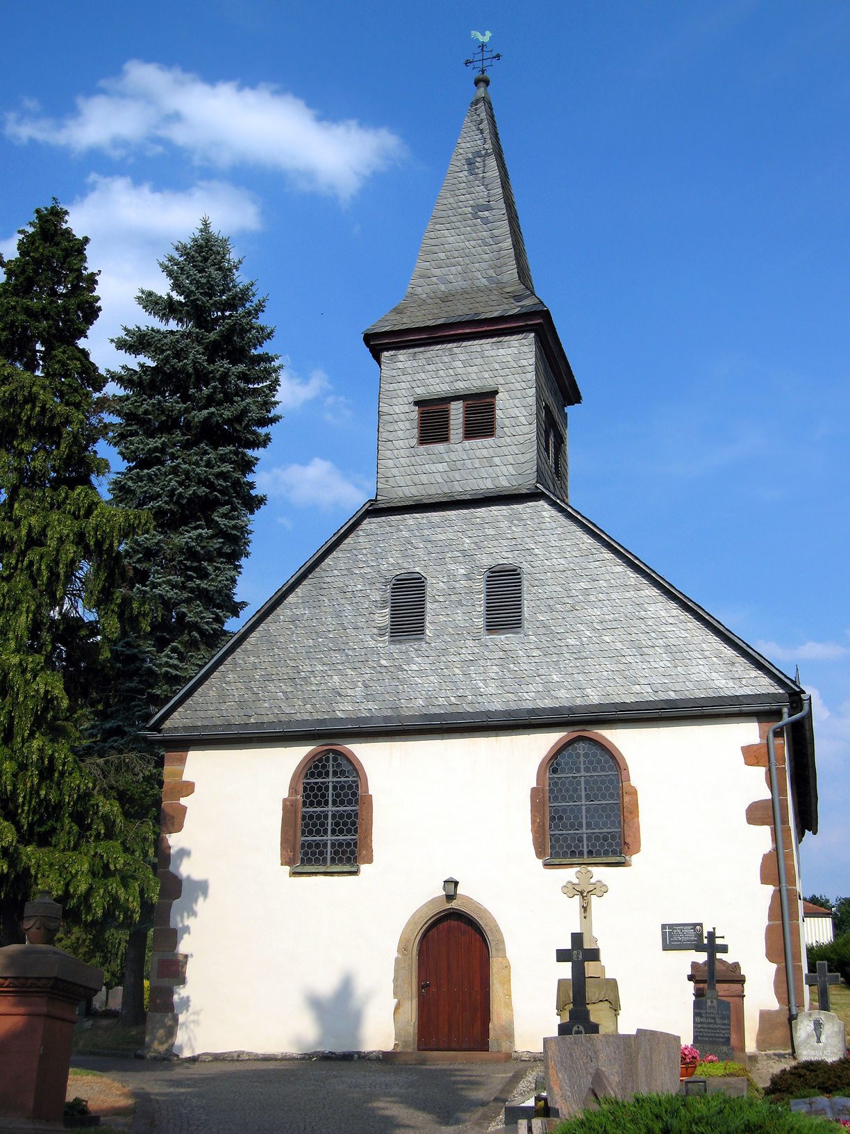 The cemetery chapel in Neustadt. The St Laurentius chapel is buid in 1527.